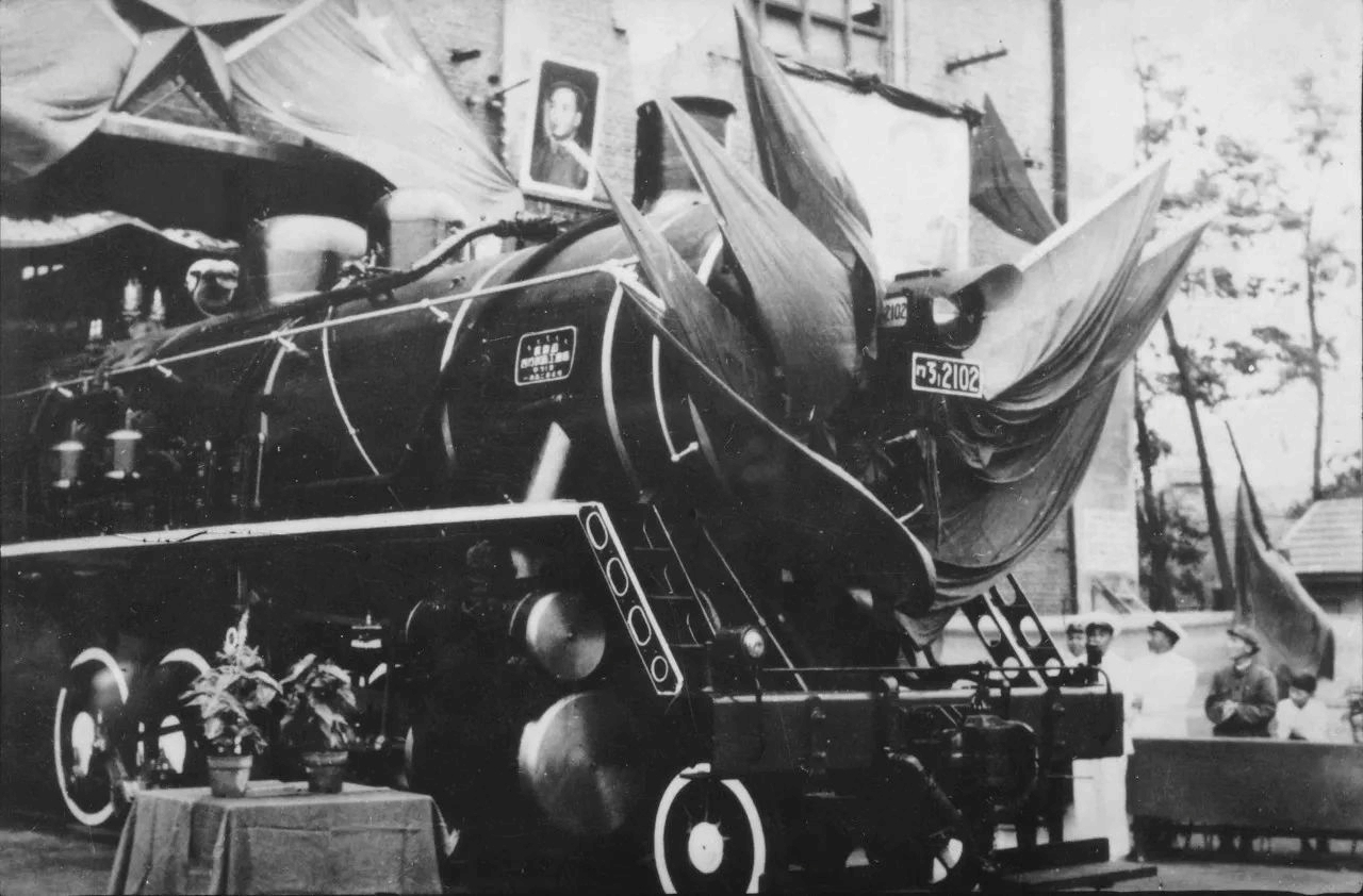 The first Chinese made locomotive in PRC, JF2102, in 1952, by Sifang Locomotive and Rolling Stock Factory.